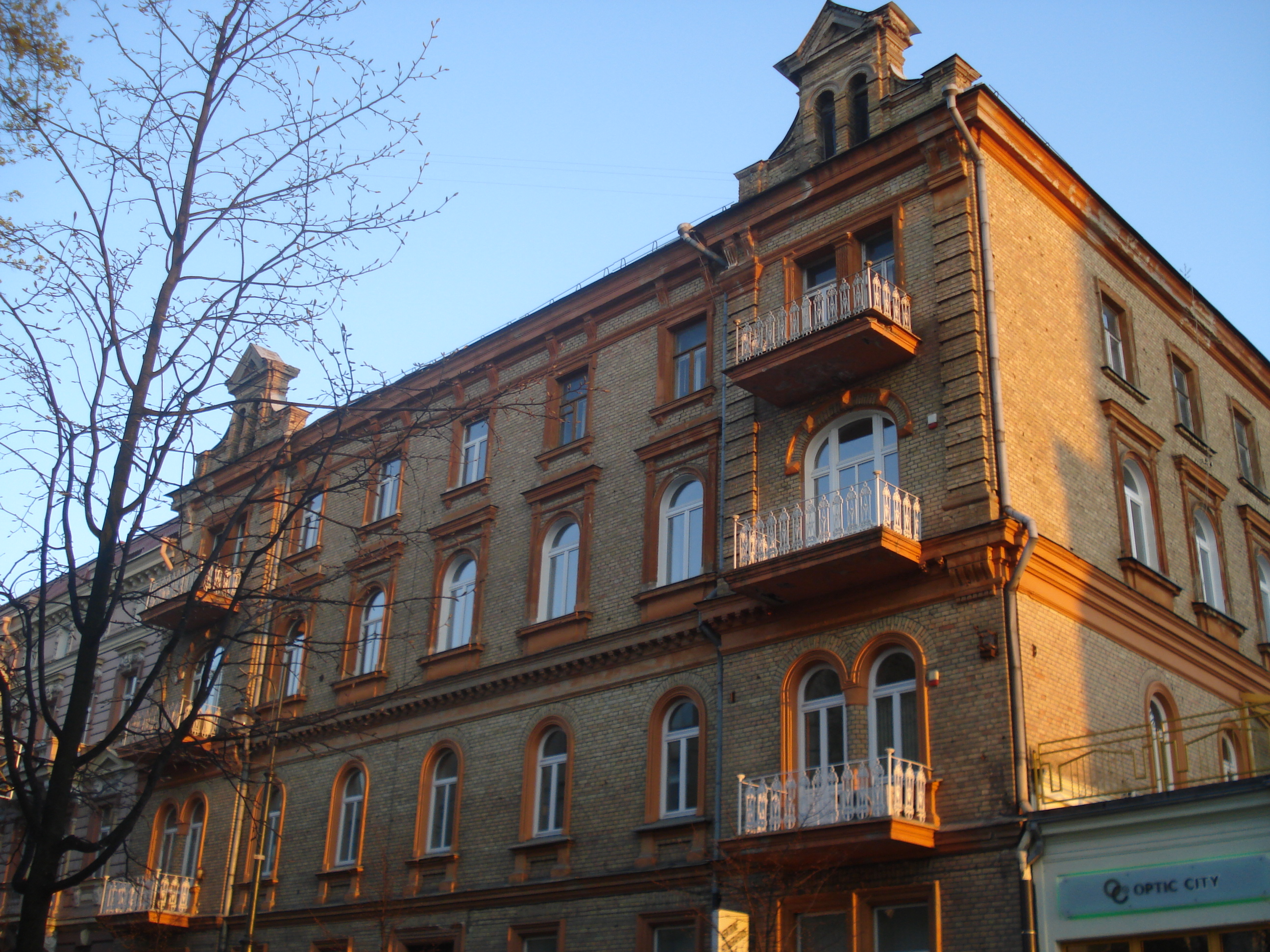 House of Nikolaj Mavrykin in Vilnius. Gedimino 32. 1893. Architect Apolinaras Mikulskis (Apolinary Mikulski).